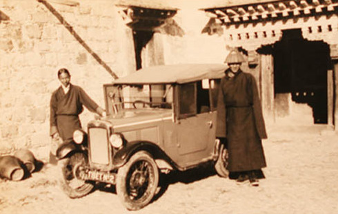 Kunphela and Tashi Dhondup with Baby Austin at Dekyi-lingka 19.9.33 (Peggy)